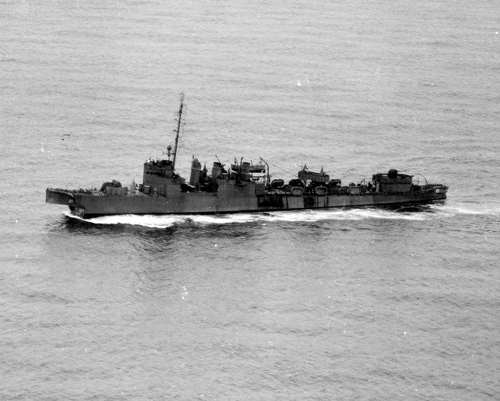 The U.S. Navy light minelayer USS Sicard (DM-21) en route from Alaska (USA) to the Mare Island Naval Shipyard, California (USA), for repair, 19 May 1943. Sicard was damaged in a collision with the destroyer USS Macdonough (DD-351) on 10 May 1943 off Attu, Aleutian Islands.